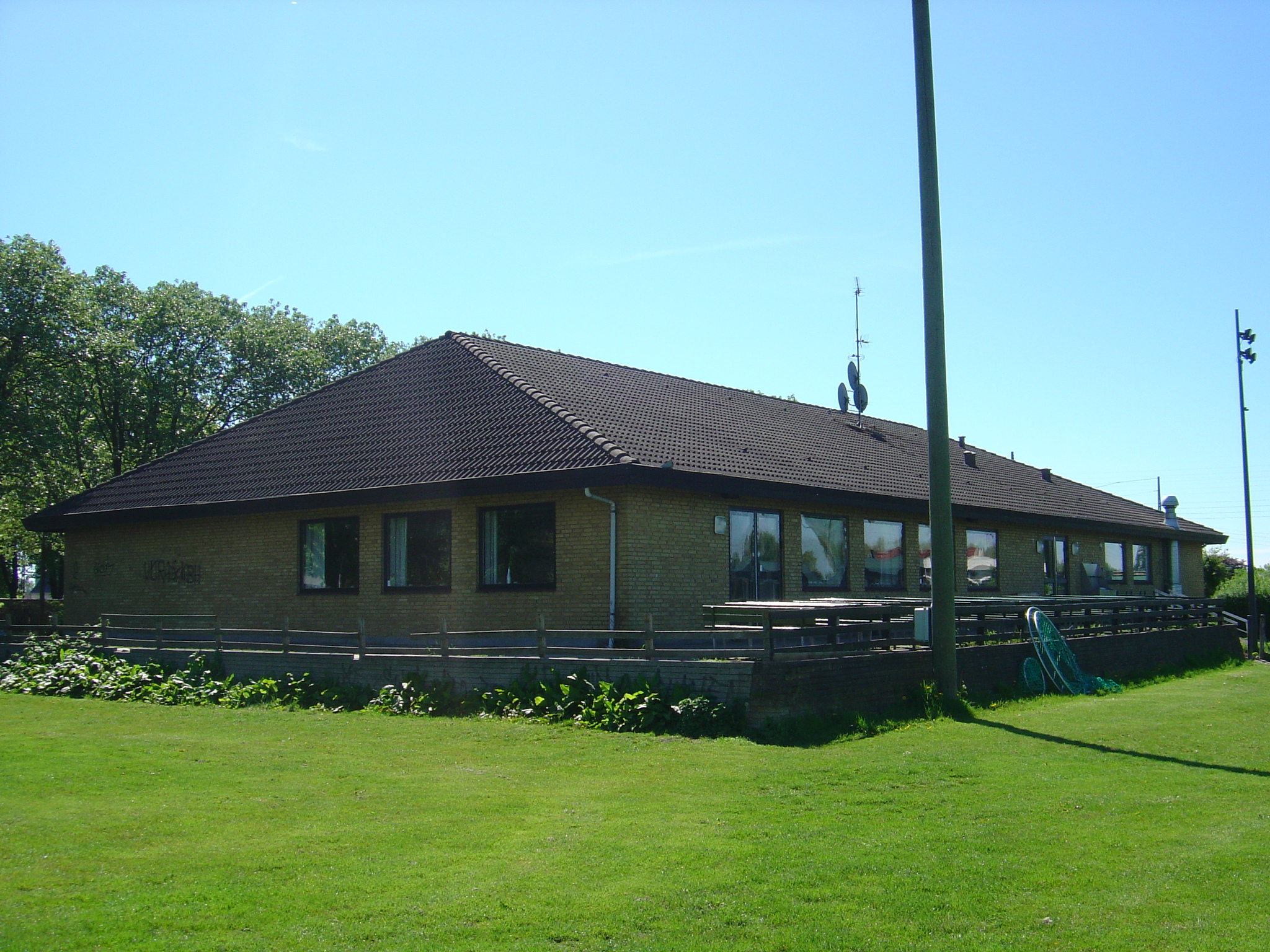 Boldklubben Fremad Amager - the club house of an association football club on Sundbyvestervej, Amager, Copenhagen. Seen from the northeast side, on Sundby Idrætspark.